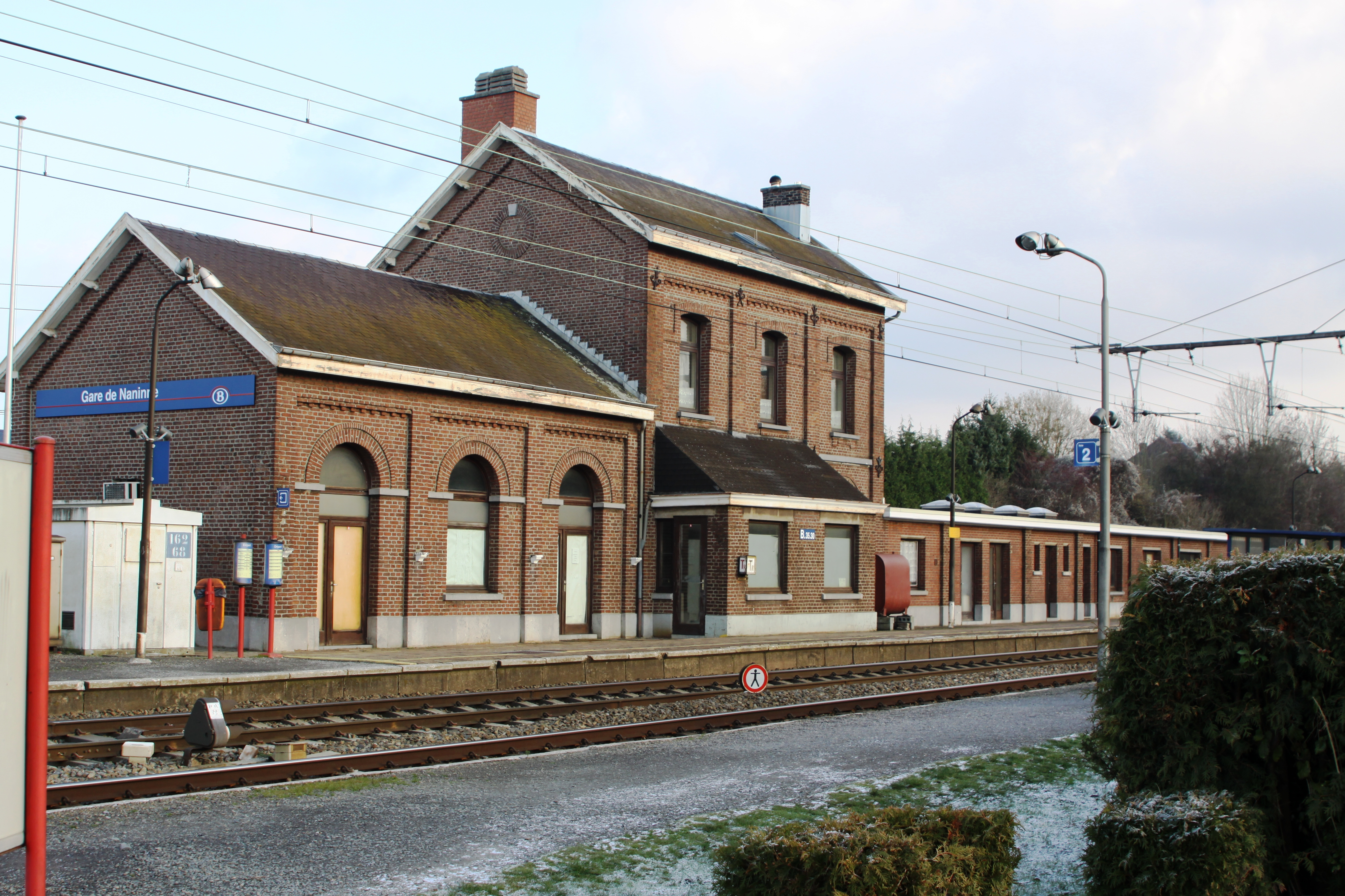 Train station Naninne 2008